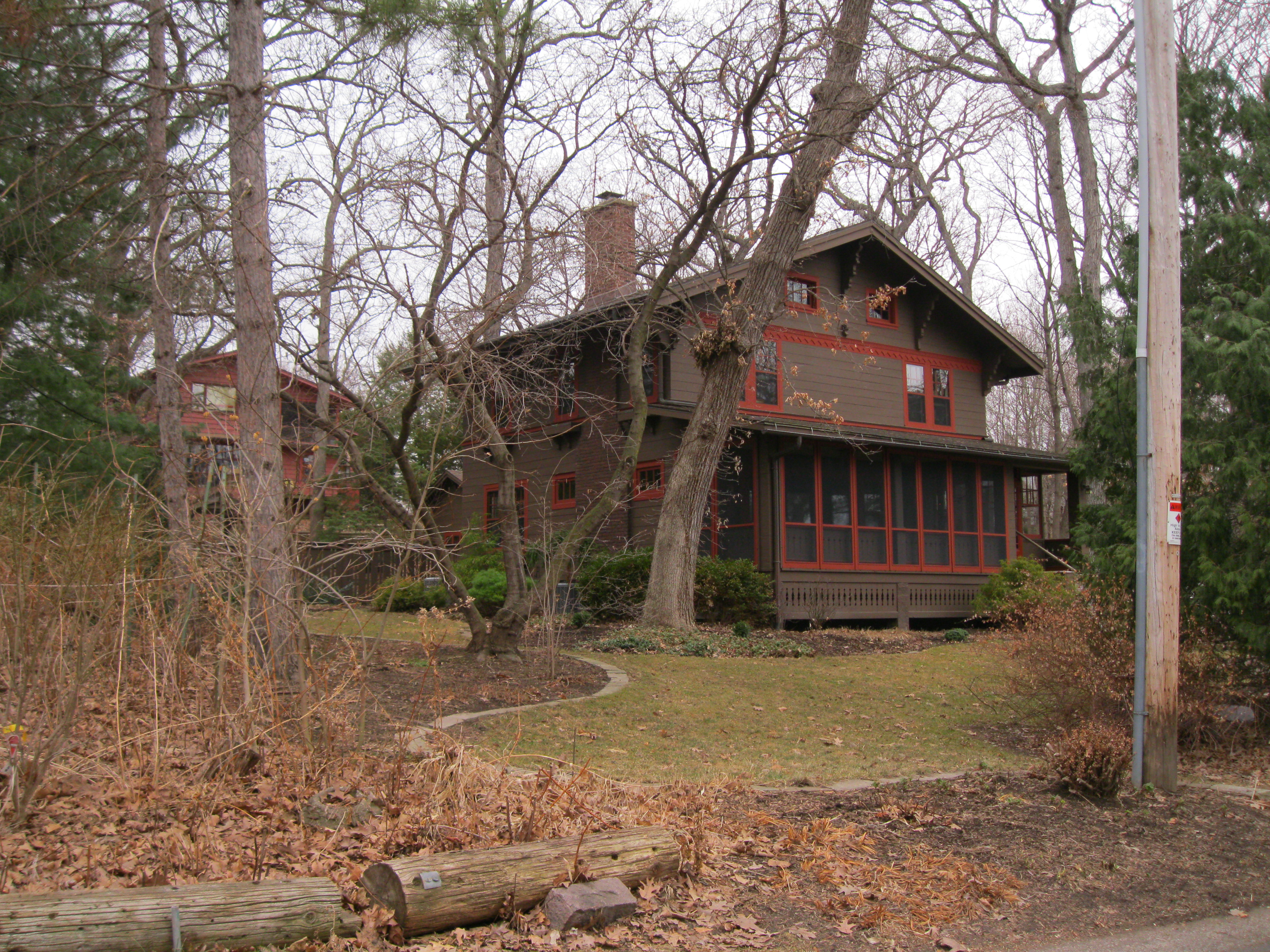 House at 1218 Sweetbriar Road in the College Hills Historic District in Shorewood Hills, Wisconsin.